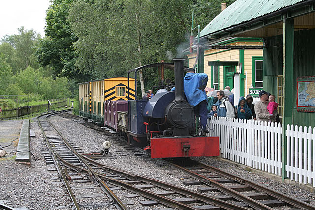 Narrow gauge railway, Amberley working museum The railway portrays the sort of railway that would have been found on industrial sites as well as providing useful links in the extensive site.